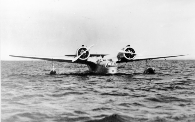 PictionID:45938699 - Catalog:16_007224 - Title: Chyetverikov MDR-6 (Che-2) Petrov photo - Filename:16_007224.TIF - Image from the Ray Wagner collection. Ray Wagner was Archivist at the San Diego Air and Space Museum for several years and is an author of several books on aviation --- ---Please Tag these images so that the information can be permanently stored with the digital file.---Repository: San Diego Air and Space Museum